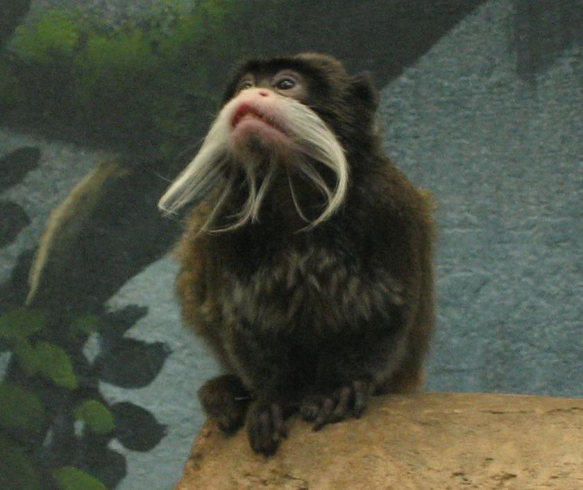 An emperor tamarin at the Como Park Zoo in St. Paul, Minnesota